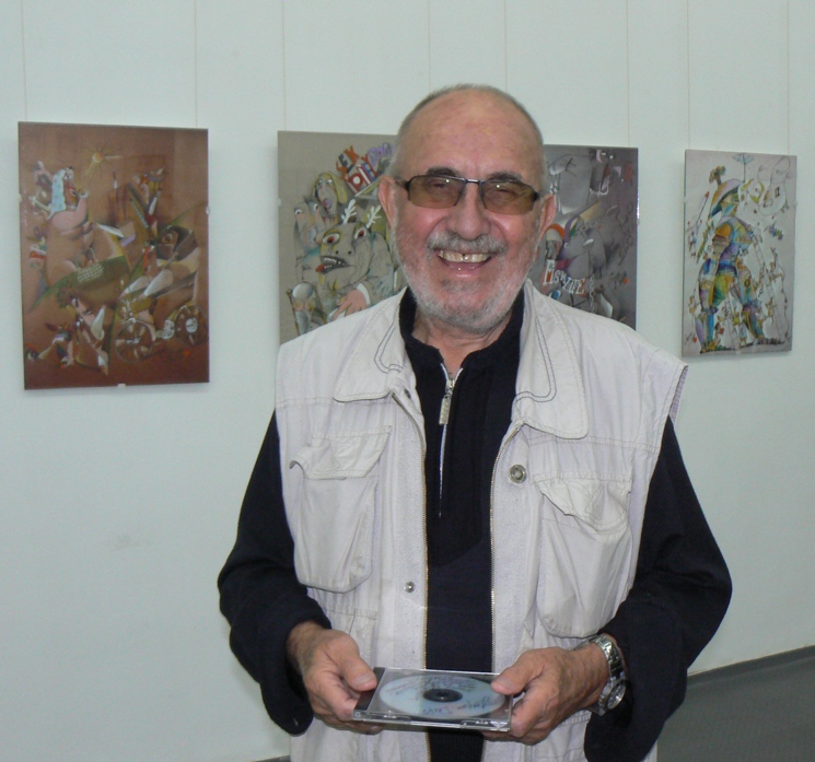 Bulgarian painter and caricaturist Stoyan Dukov on the opening of a joint exhibition on 3 September 2010 in Sofia, Bulgaria